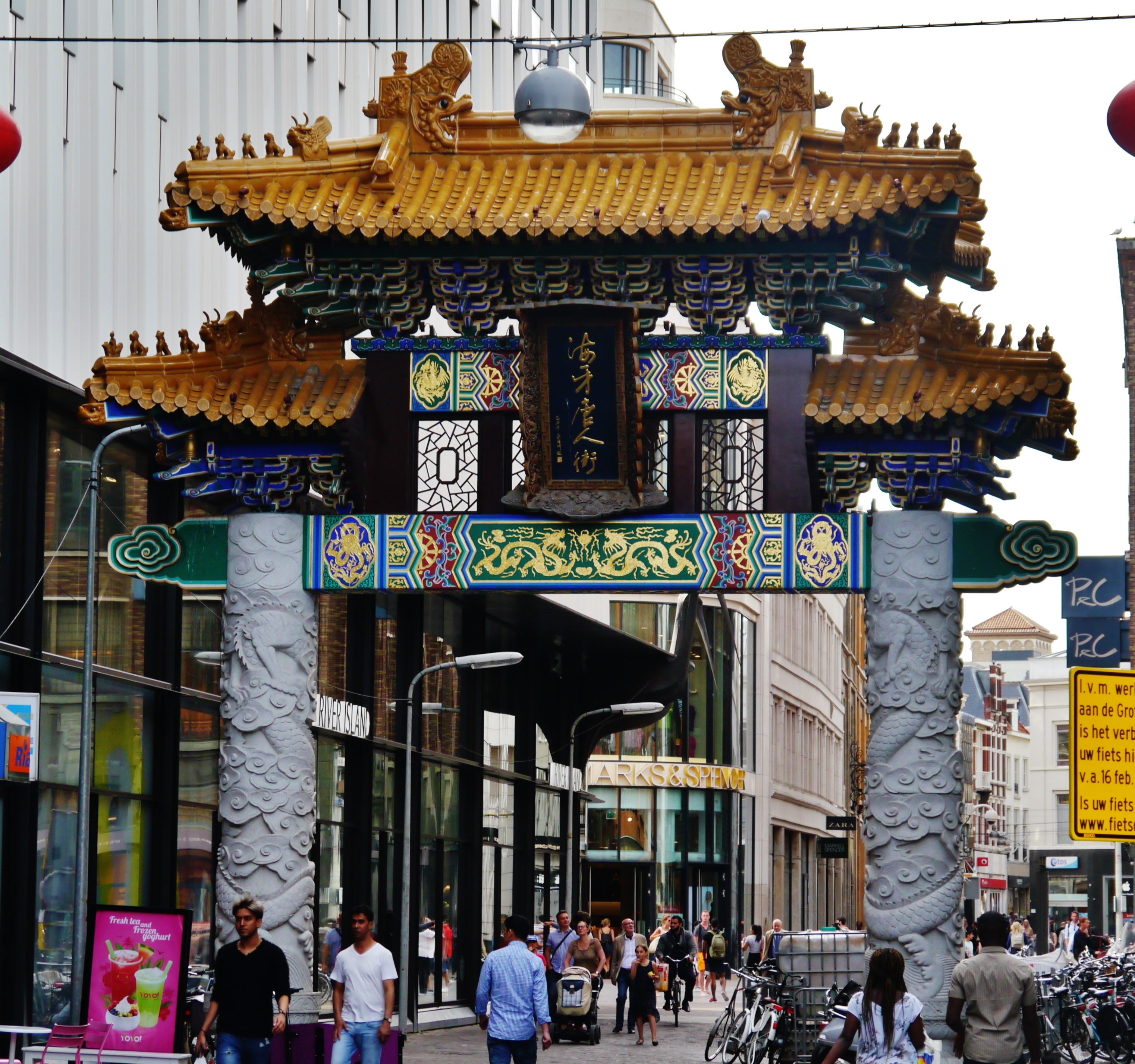 Entrance Gate of the Chinatown, The Hague, Province of South Holland, Netherlands